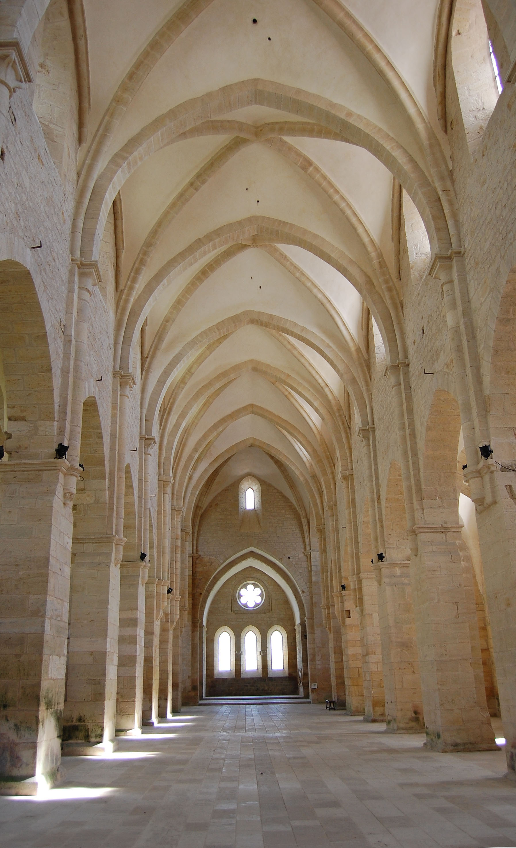 Eglise de l'Abbaye de Noirlac (Cher), Chiesa dell'abbazia di Noirlac, Church of the Noirlac Abbey